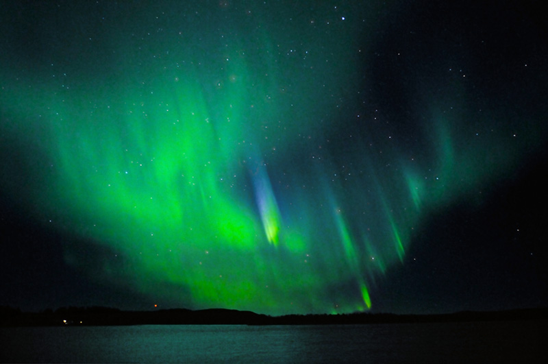 Northern Lights with very rare blue light emitted by nitrogen.